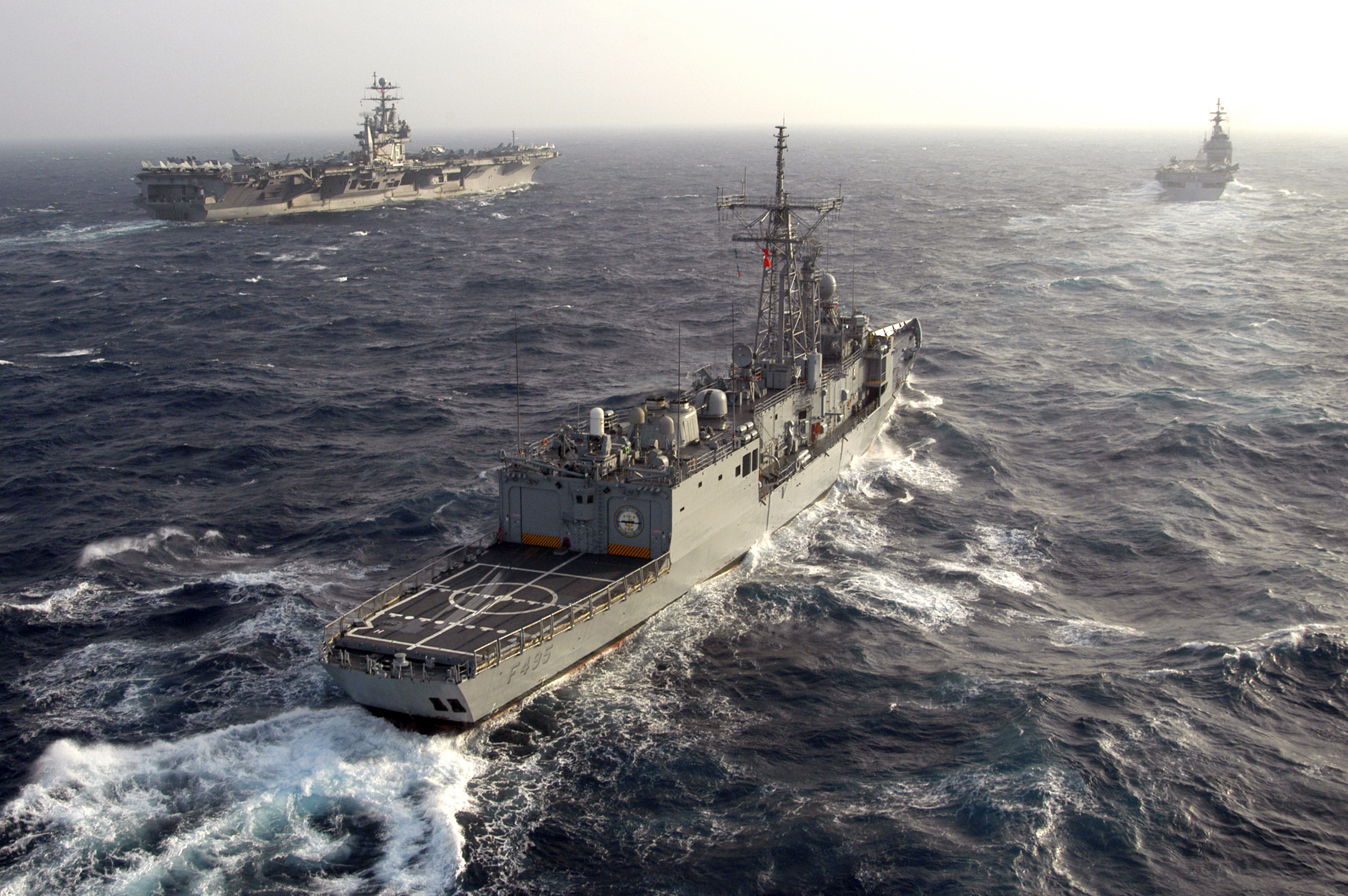 Atlantic Ocean (July 12, 2004) - The Turkish frigate TCG Gediz (F 495), USS Harry S. Truman (CVN 75) and the Italian aircraft carrier ITS Giuseppe Garibaldi (C 551) steam through the Atlantic Ocean while participating in Majestic Eagle 2004. Majestic Eagle is a multinational exercise being conducted off the coast of Morocco. The exercise demonstrates the combined force capabilities and quick response times of the participating naval, air, undersea and surface warfare groups. Countries involved in the NATO led exercise include the United Kingdom, Morocco, France, Italy, Portugal, Spain, and Turkey. Truman's participation in Majestic Eagle is part of her scheduled deployment supporting the Navy's new fleet response plan (FRP) Summer Pulse 2004, the simultaneous deployment of seven carrier strike groups (CSGs), demonstrating the ability of the Navy to provide credible combat across the globe, in five theaters with other U.S., allied, and coalition military forces. U.S. Navy photo by Photographer's Mate Airman Rob Gaston (RELEASED) For more information go to